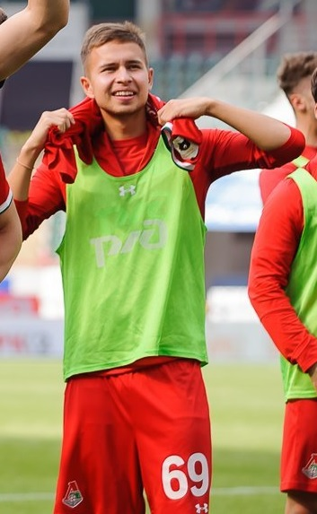 Daniil Kulikov with FC Lokomotiv Moscow after the game against FC Ufa.